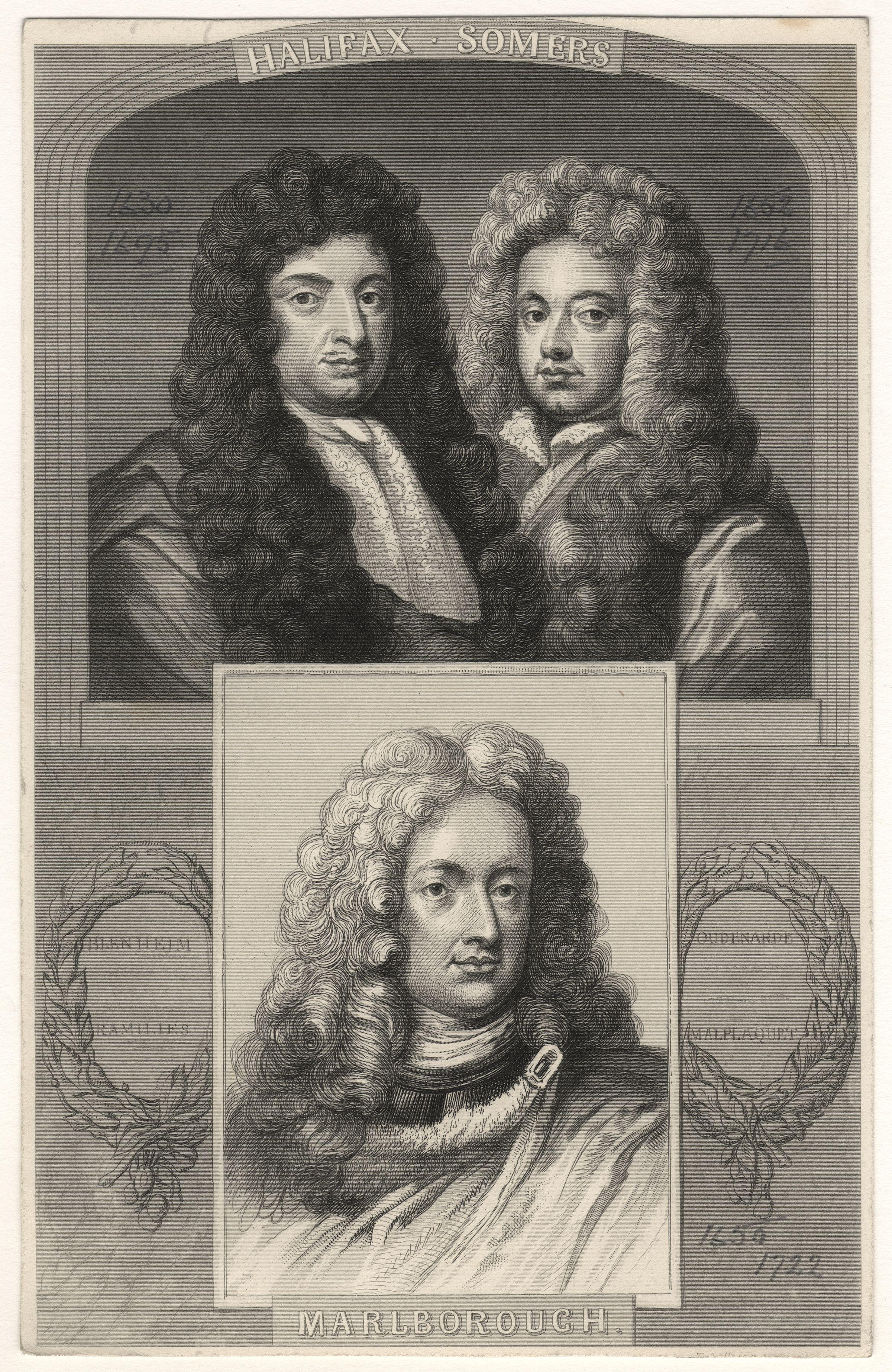 George Savile, 1st Marquess of Halifax; John Somers, Baron Somers; John Churchill, 1st Duke of Marlborough, by unknown artist. All images in this batch are listed as "unknown author" by the NPG, who is diligent in researching authors, and was donated to the NPG before 1939 according to their website.